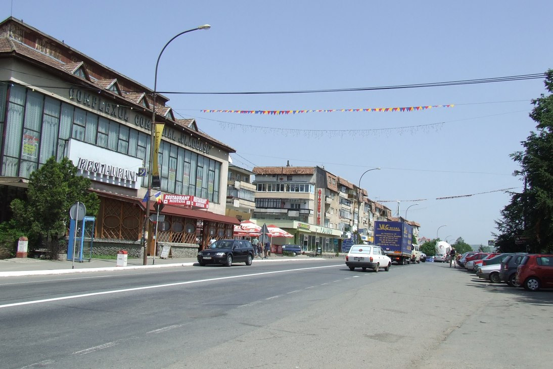 View from city of Huedin, Cluj County, Romania